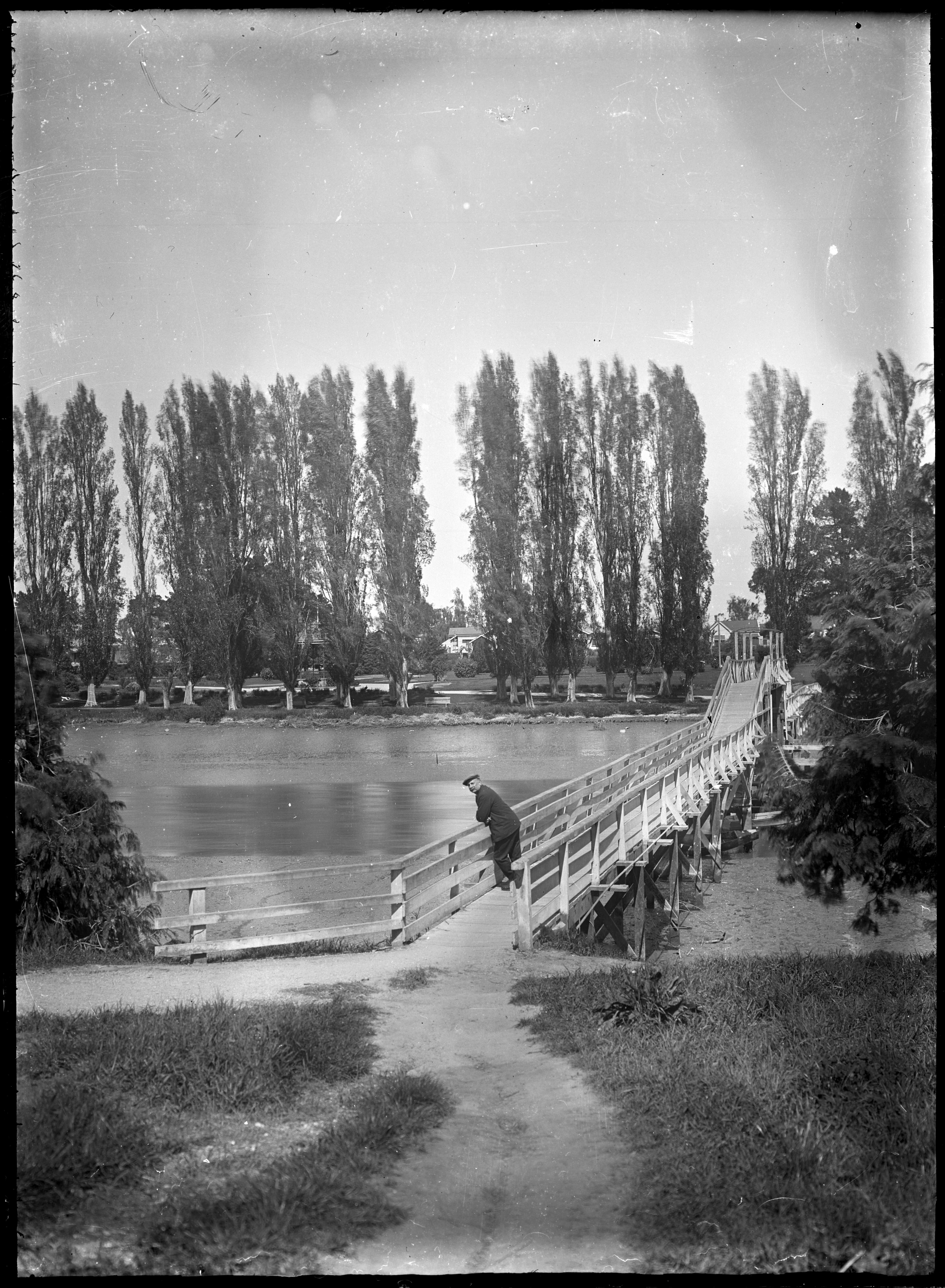 The photographer Albert Percy Godber standing on a footbridge over the Taruheru River, Gisborne, with a row of poplars on the far side. Photographed by Godber, circa 1920s.